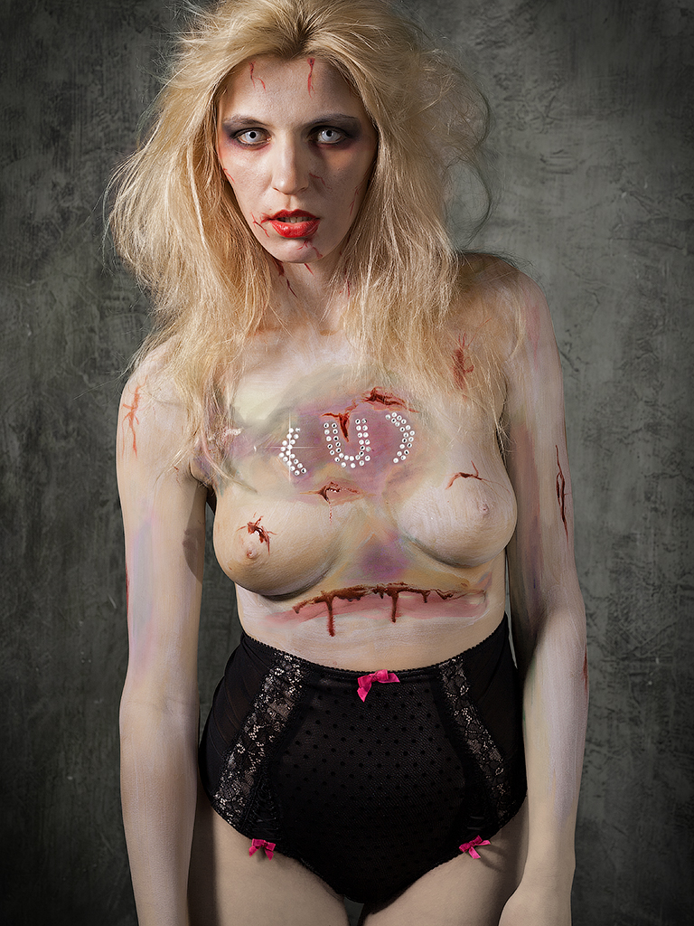 Photographer's original description: tag was "killed" in HTML 4.01 but "reanimated" in HTML5, is used to text that should be underlined. Topless woman in lingerie painted with zombie make-up.